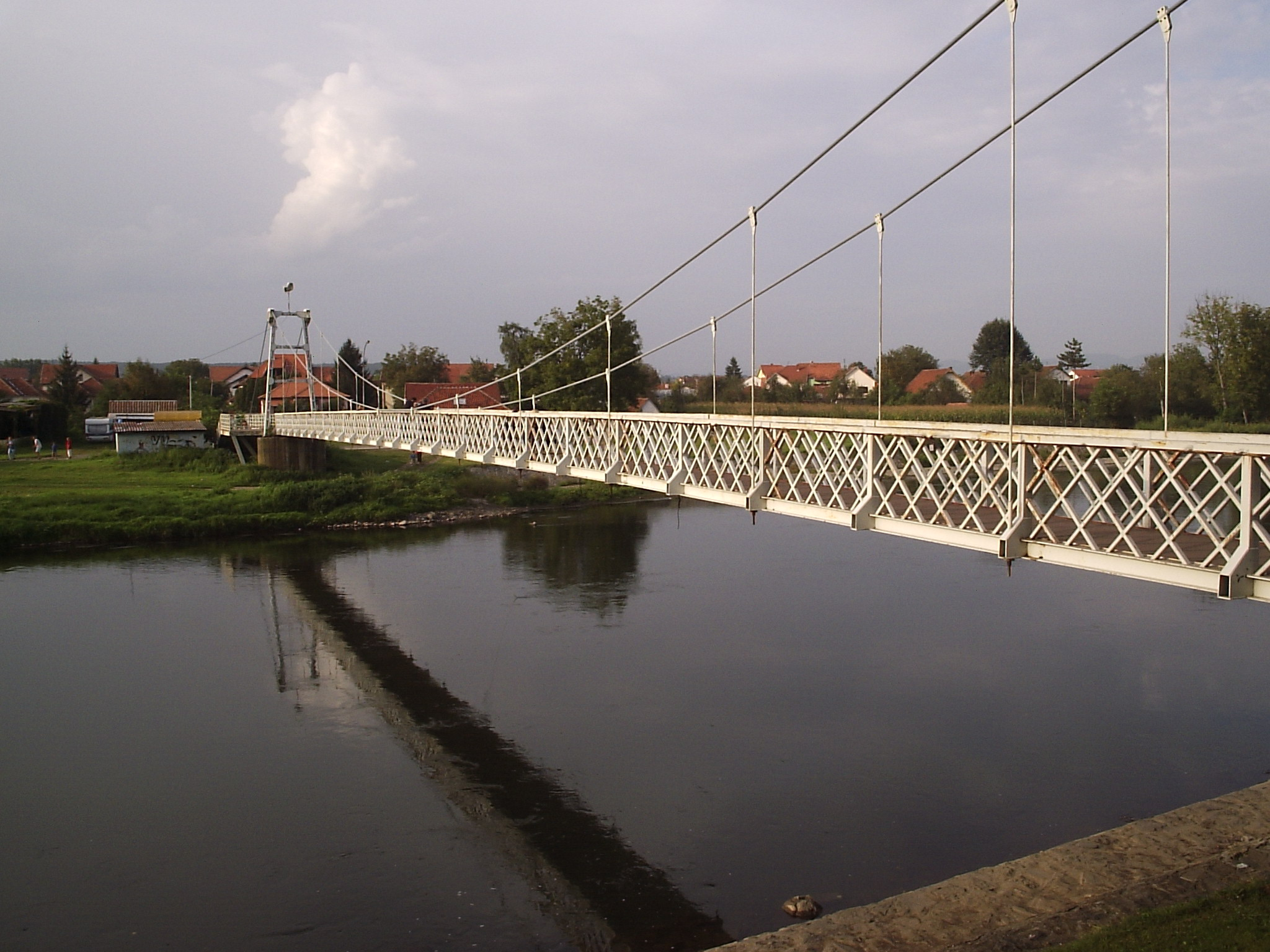 The river Ibar in the town of Mataruška Banja, Serbia/L'Ibar dans la ville de Mataruška Banja, Serbie